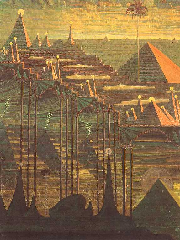 Painting Allegro (part one) in planned four-painting cycle Piramidžių sonata (Sonata of the Pyramids). Only two paintings were completed.